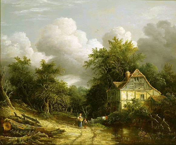 "A Rustic Rural Landscape", Oil on Canvas, 44.5 x 52 cm